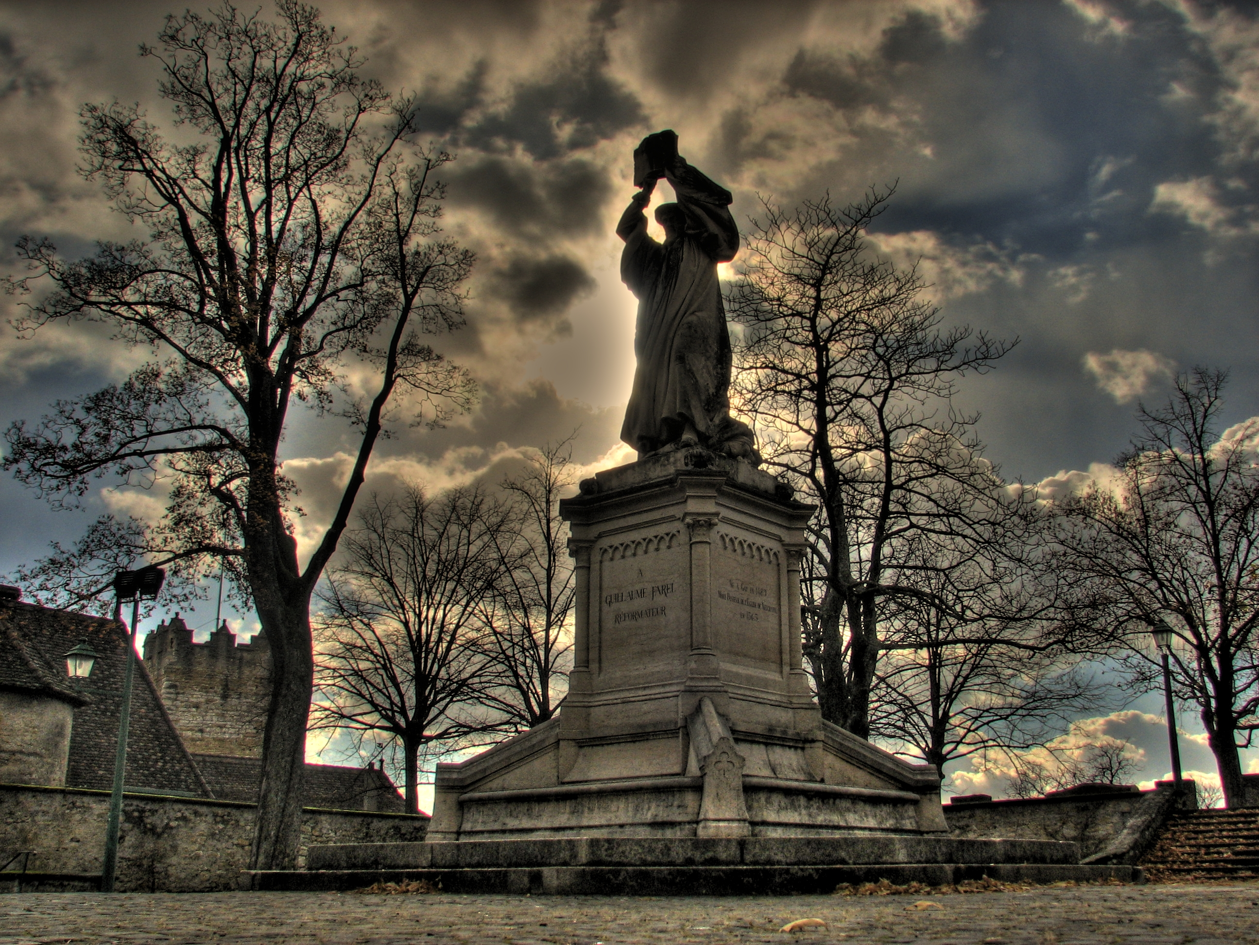 Guillaume Farel